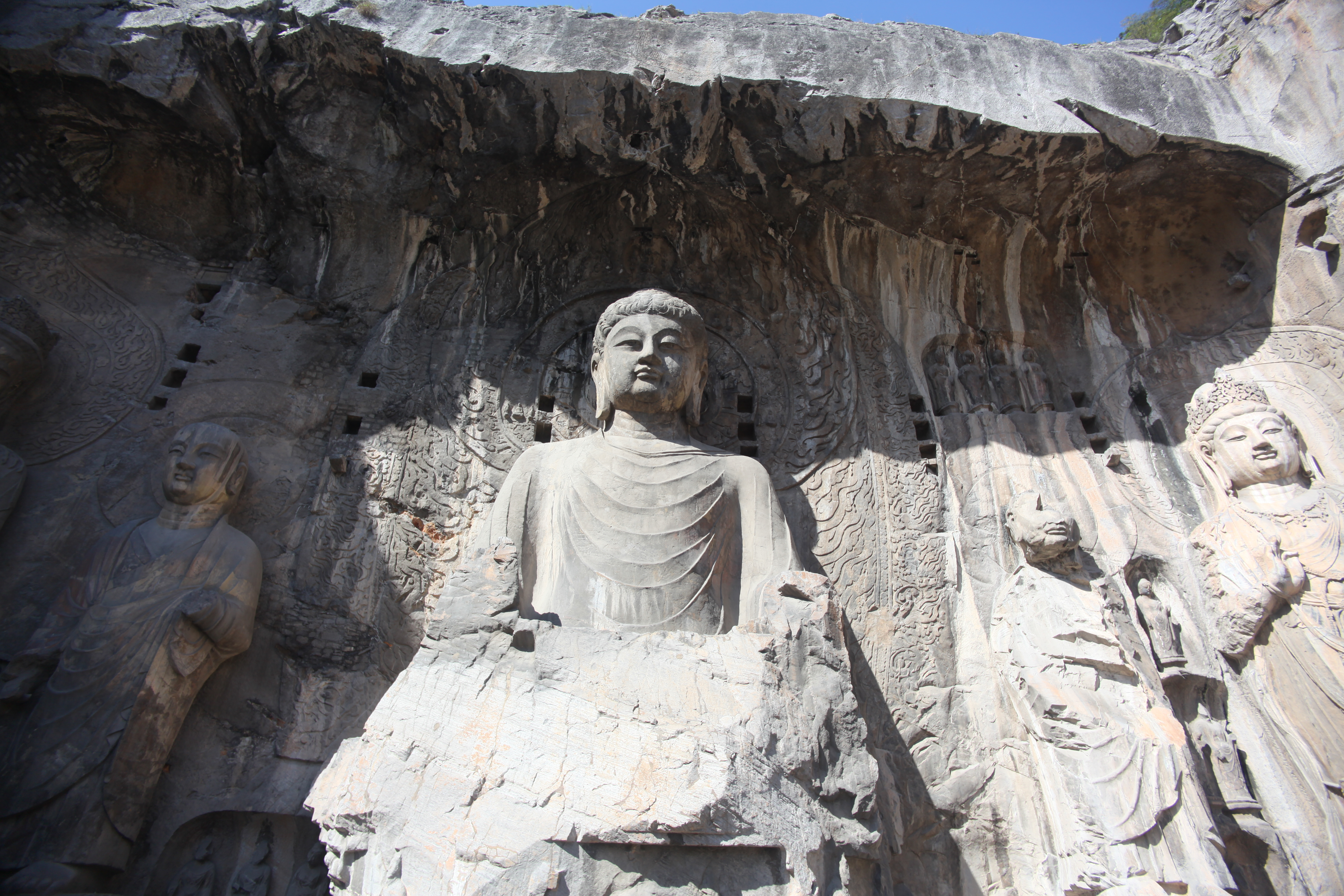 Lushena Buddha at Longmen Grottos in Luoyang